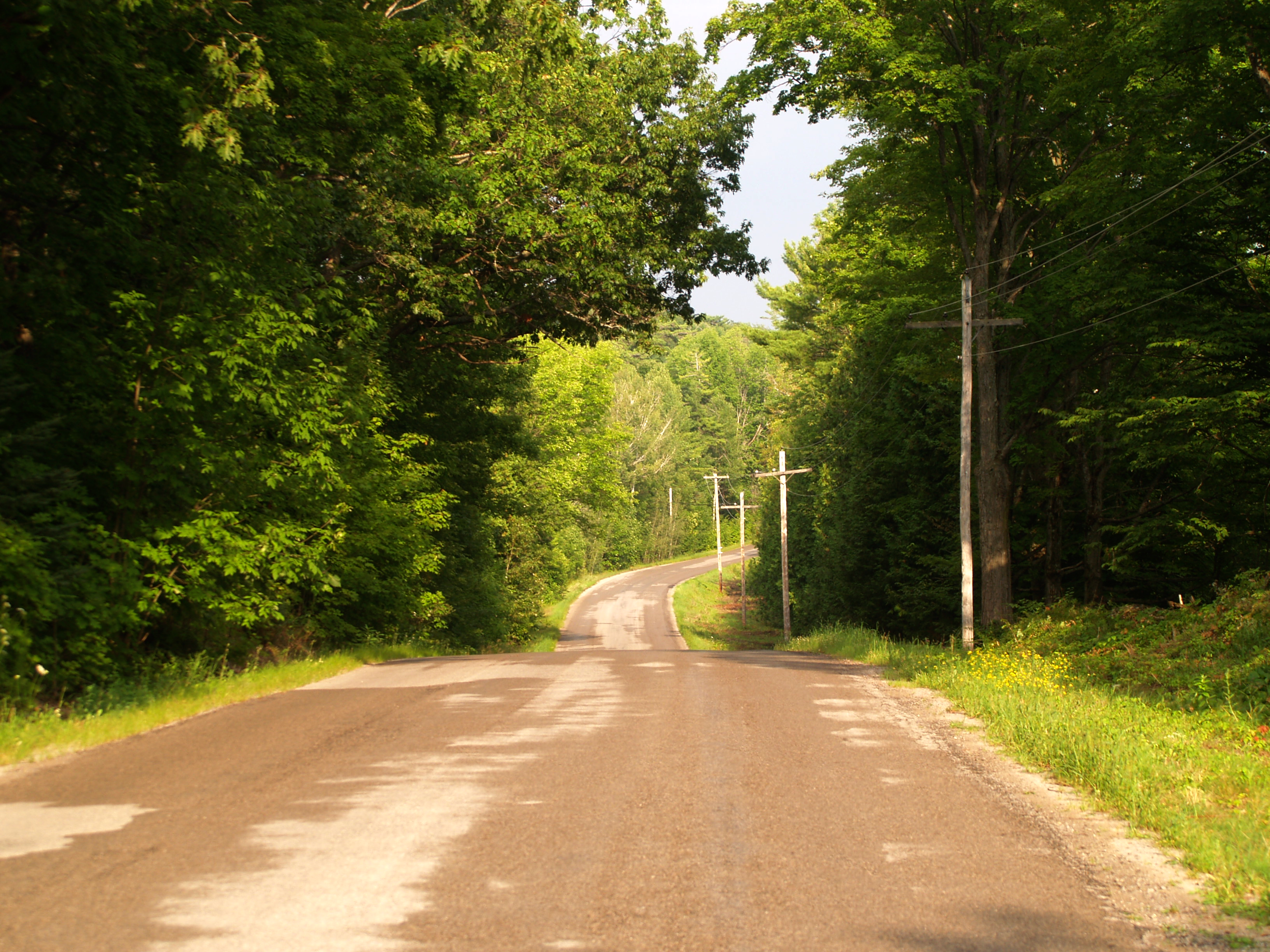 The former route of Ontario Highway 46 until June 28, 1967, when a bypass opened further inland from Balsam Lake. This new route would become part of Highway 48 in 1975. The route pictured simply became known as West Bay Drive.